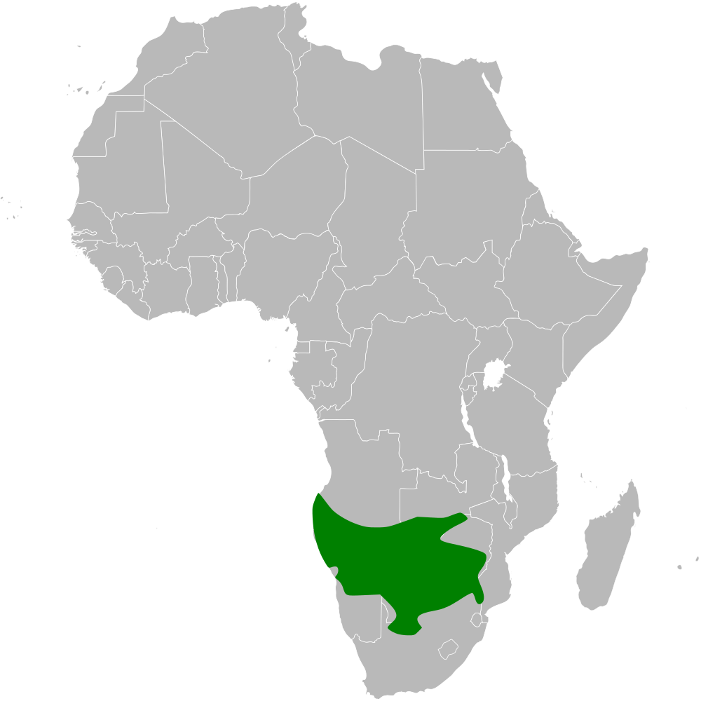 Mirafra passerina distribution map; using Blank Map-Africa.svg, based on